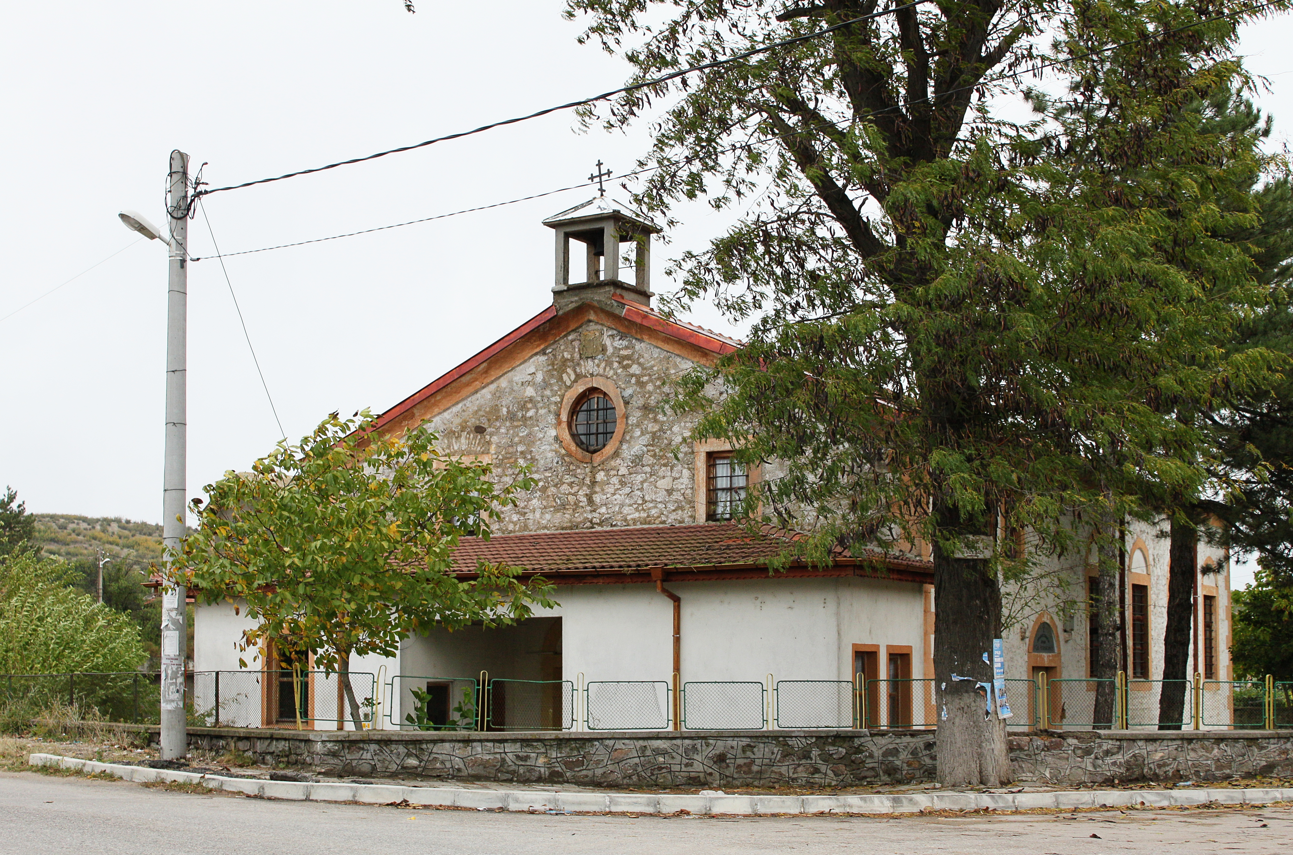 village Susam, Haskovo District, Bulgaria